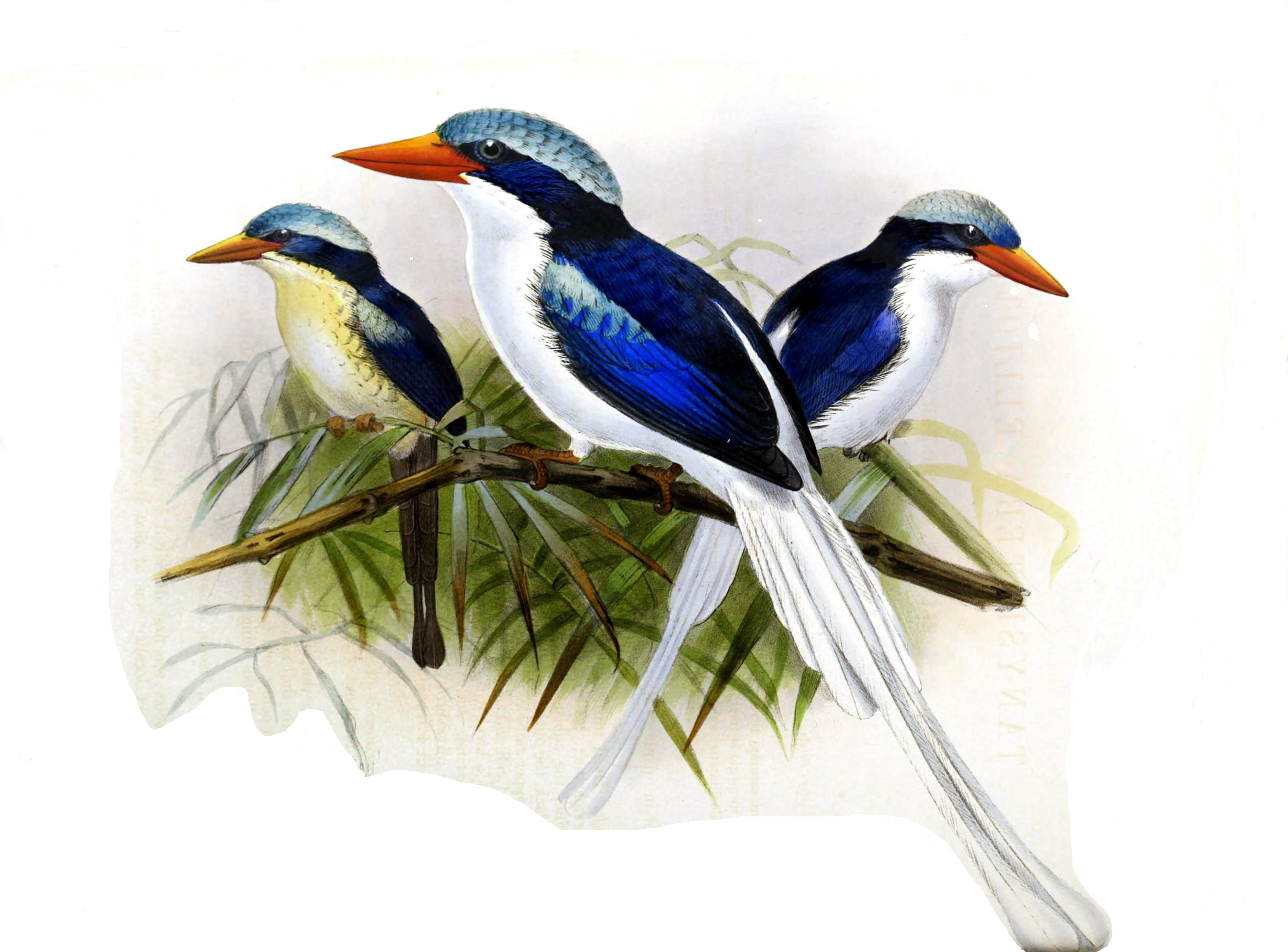 Tanysiptera ellioti